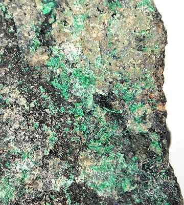 Silver Locality: Campbell Mine (Campbell shaft), Bisbee, Warren District, Mule Mts, Cochise County, Arizona, USA (Locality at ) Size: 7.0 x 6.3 x 3.4 cm. This is a hefty specimen of basically ore, though it has specks of silver on the surface and so is in fact a rare silver ore specimen, from Bisbee. From the well-known Tucson collection of 40-year collector, Harold Urish.